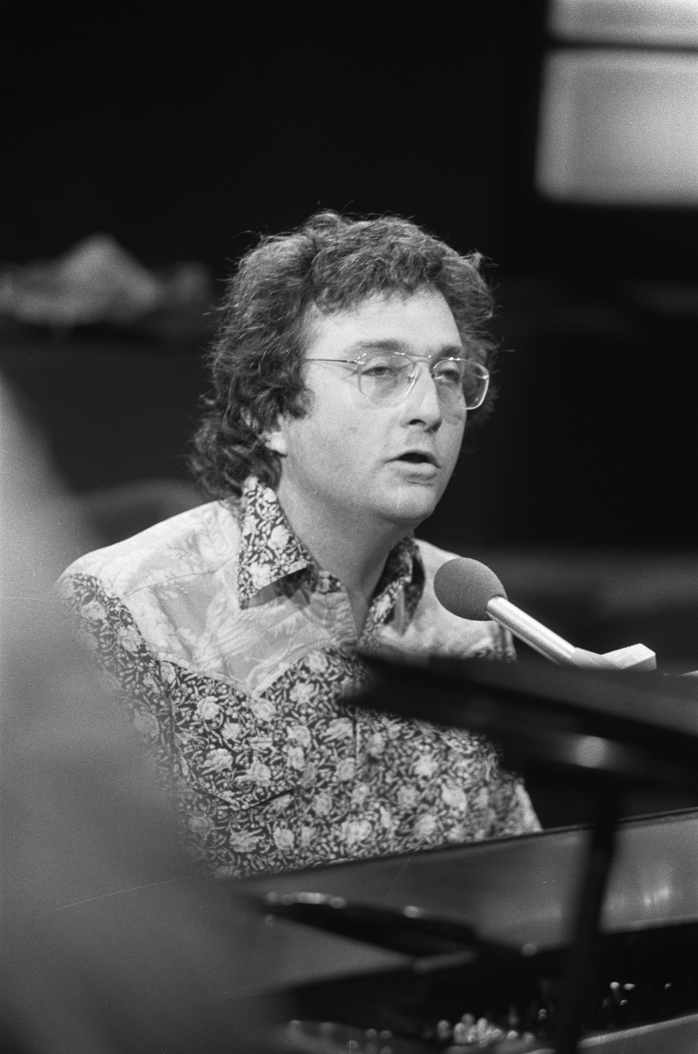 Randy Newman (Dutch TV programme Music All In -TROS), 19 March 1975